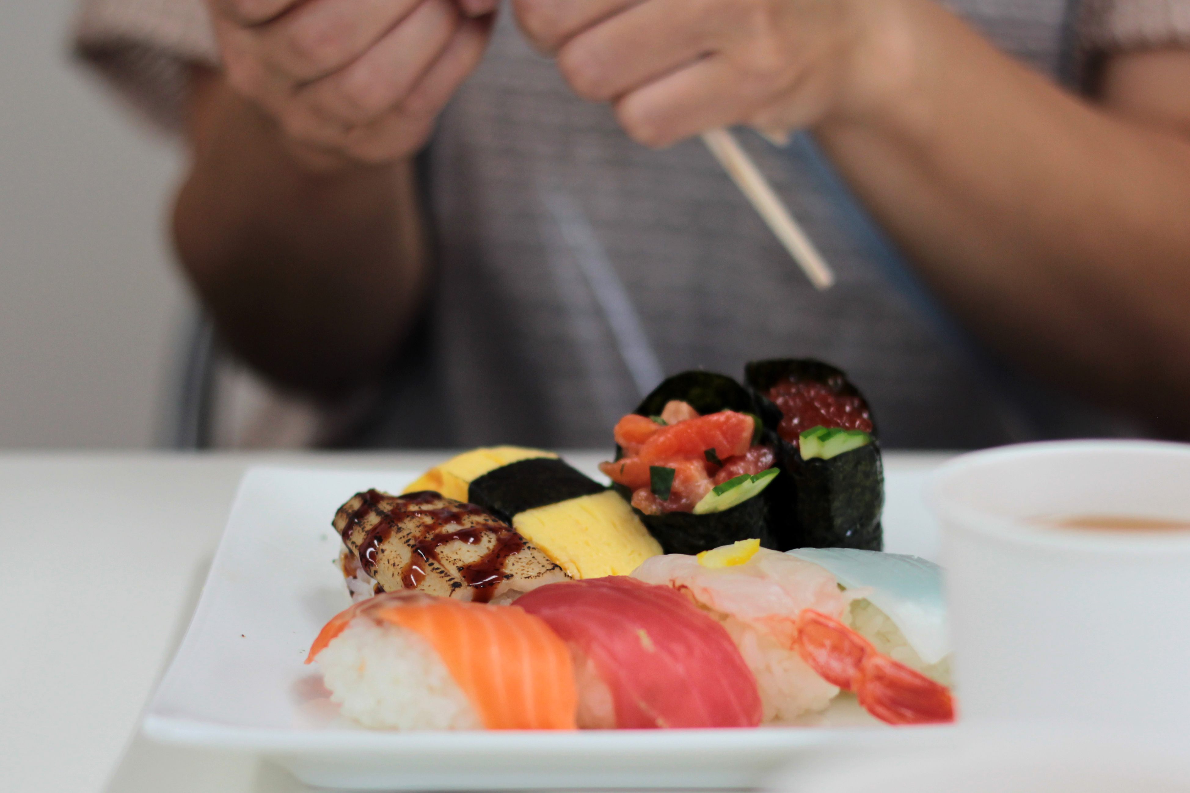 Sushi. Salmon, eel, tamago, tuna, shrimp, gunkanmaki.